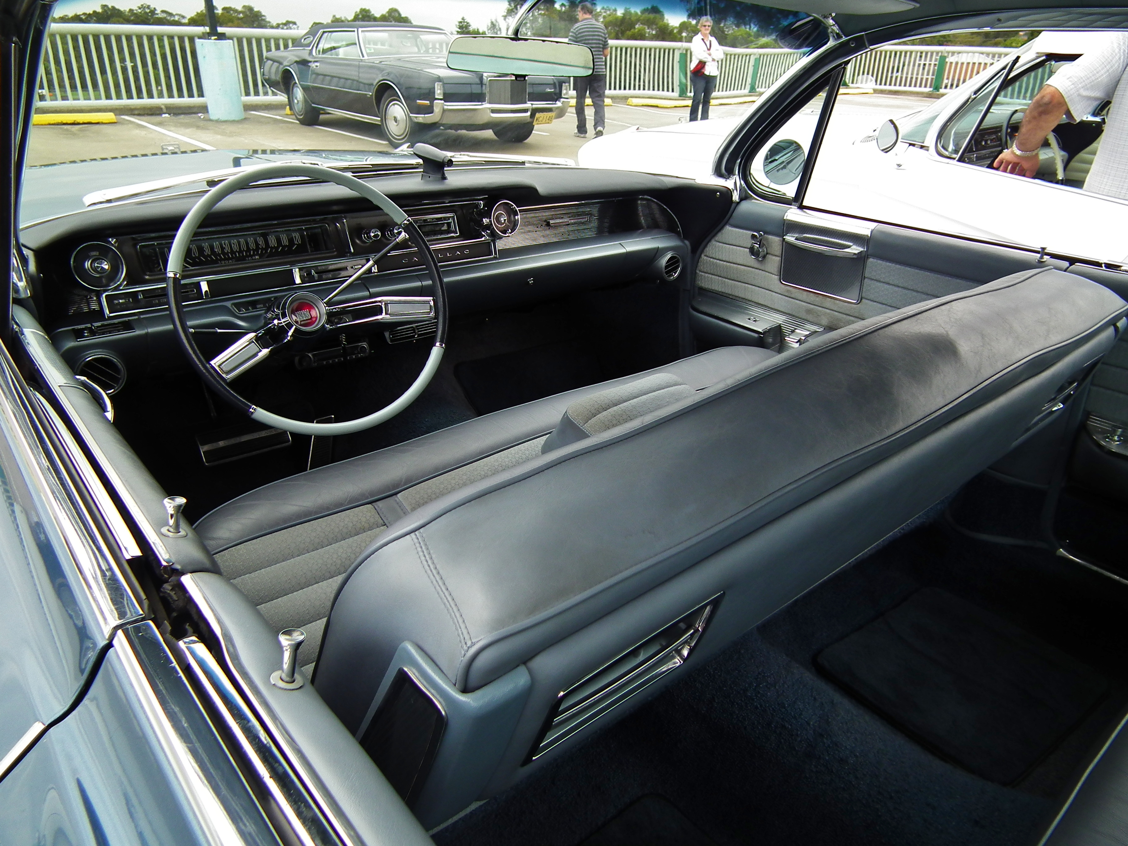 1961 Cadillac deVille Town Sedan interior. In 1961 Cadillac introduced a short deck version of the Series 6300 deVille six window sedan called the Town Sedan. From the rear windscreen to the rear bumper was 7 inches shorter than the regular deVille six window sedan. Only 3,756 were produced out of a total production of 138,379 1961 Cadillacs. The owner of this one also owns the gold one in this set. Taken at the 2013 New South Wales All American Day, held at Castle Towers Shopping Centre, Castle Hill, Sydney.